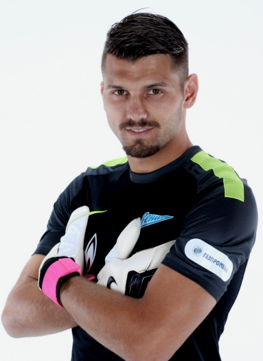 Juri Lodigin